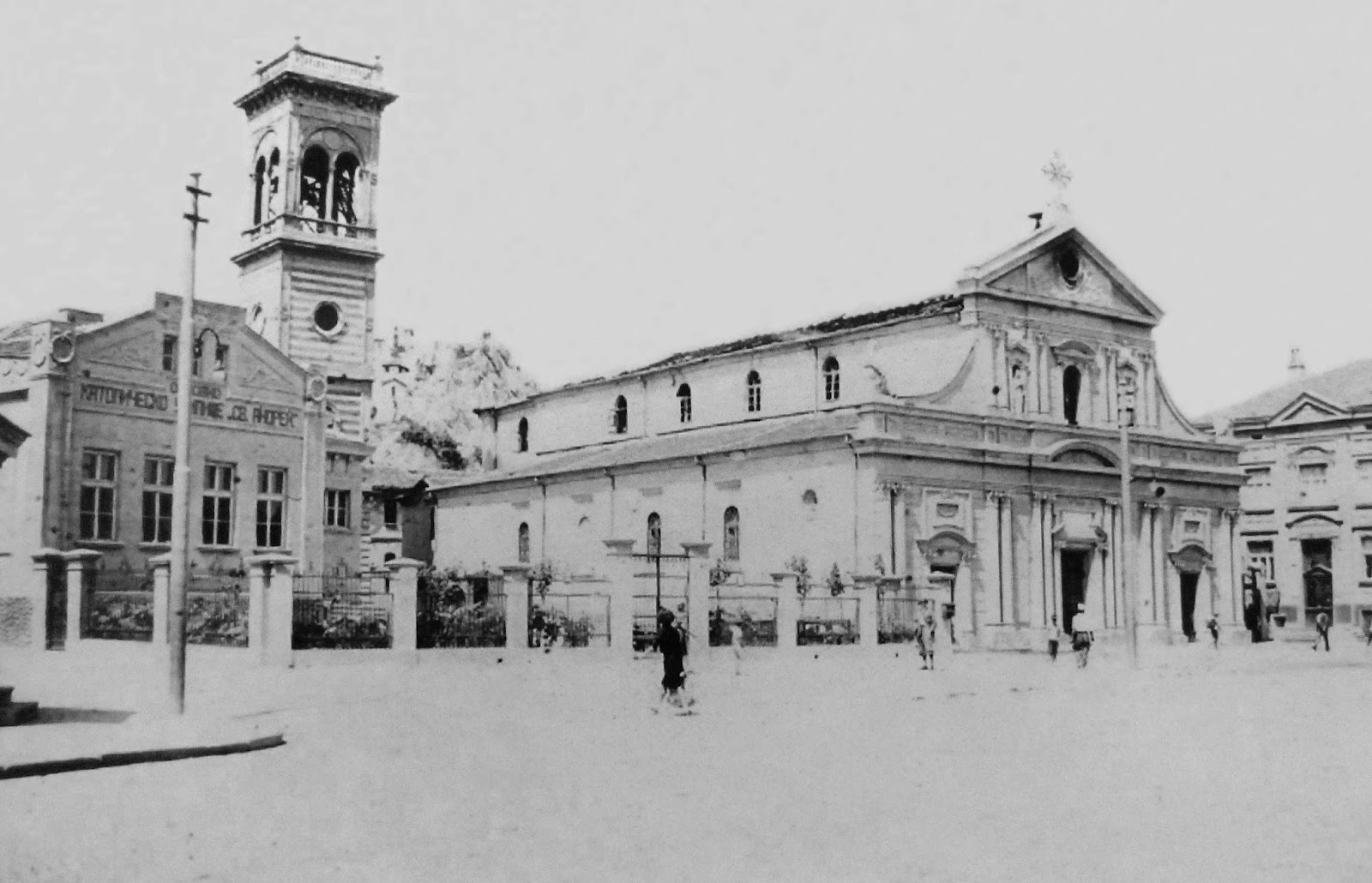 Catholic Cathedral and Catholic School in Plovdiv